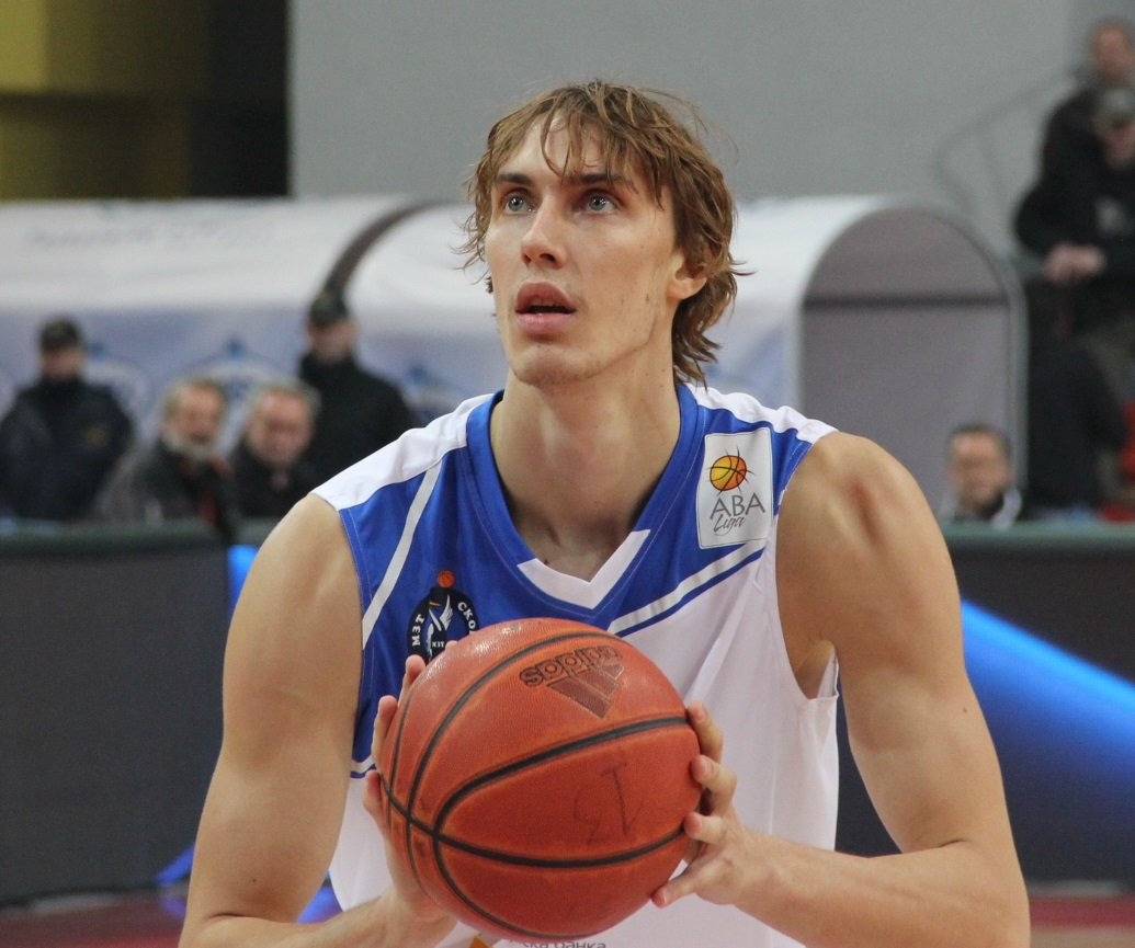 иванмзт